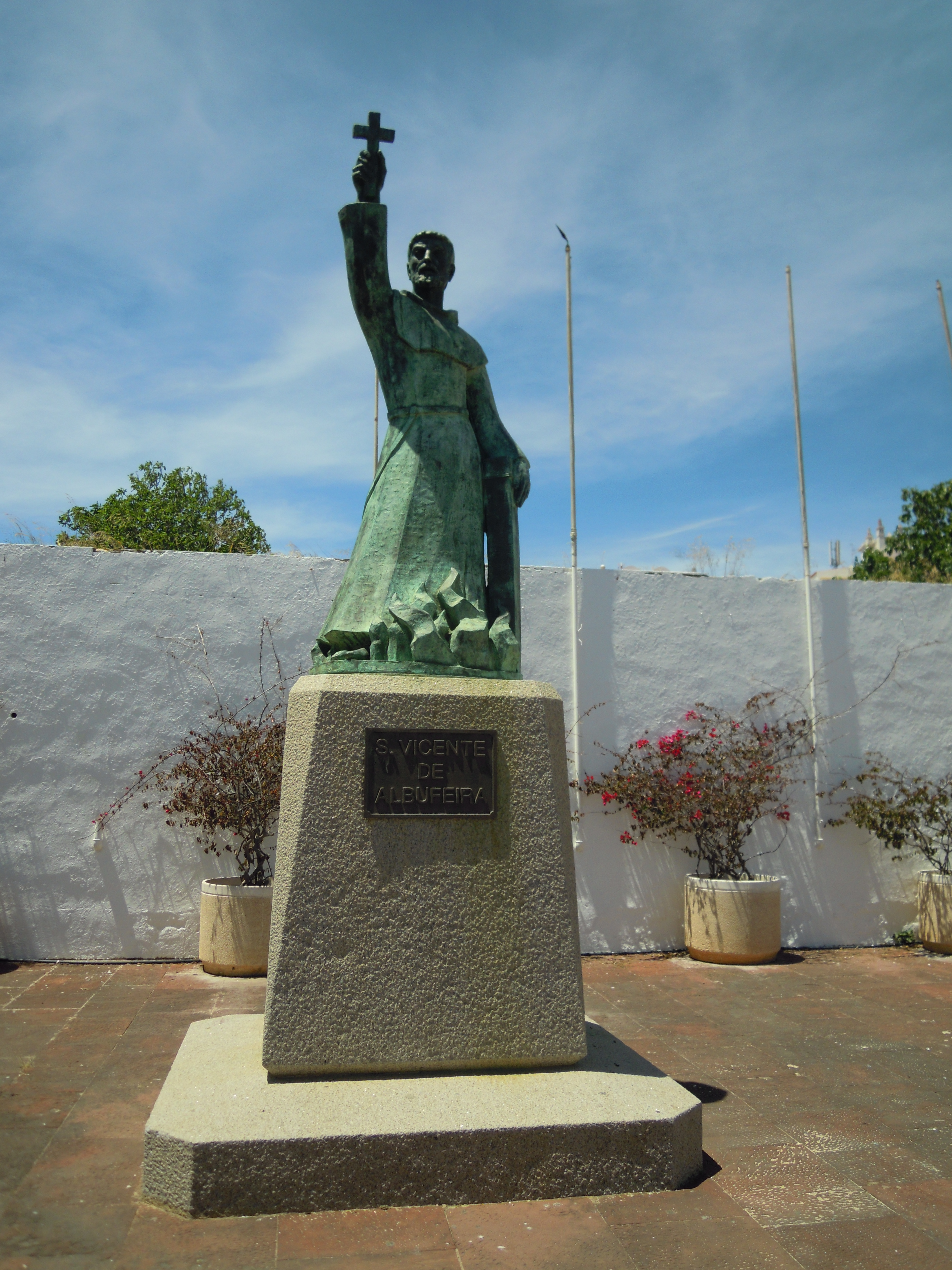 A statue of Statue of São Vicente de Albufeira which is located on Largo Jacinto D'Ayet, Albufeira, Algarve, Portugal. Vicente Simões de Carvalho was born in Albufeira castle in 1590. A talented child his parents sent him to Lisbon to be educated. He excelled and took up an ecclesiastical career and he was ordained a priest at age 27. In 1523 he travelled to Japan as a missionary. He preaching the Gospel and administered the sacraments to the local population of Nagasaki. He also travelled extensively through Spain , Mexico and the Philippines. Returning to Japan he was martyred on the 3 September of 1623. He was beatified in the Catholic Church by Pope Pius IX on the 7 July of 1867.